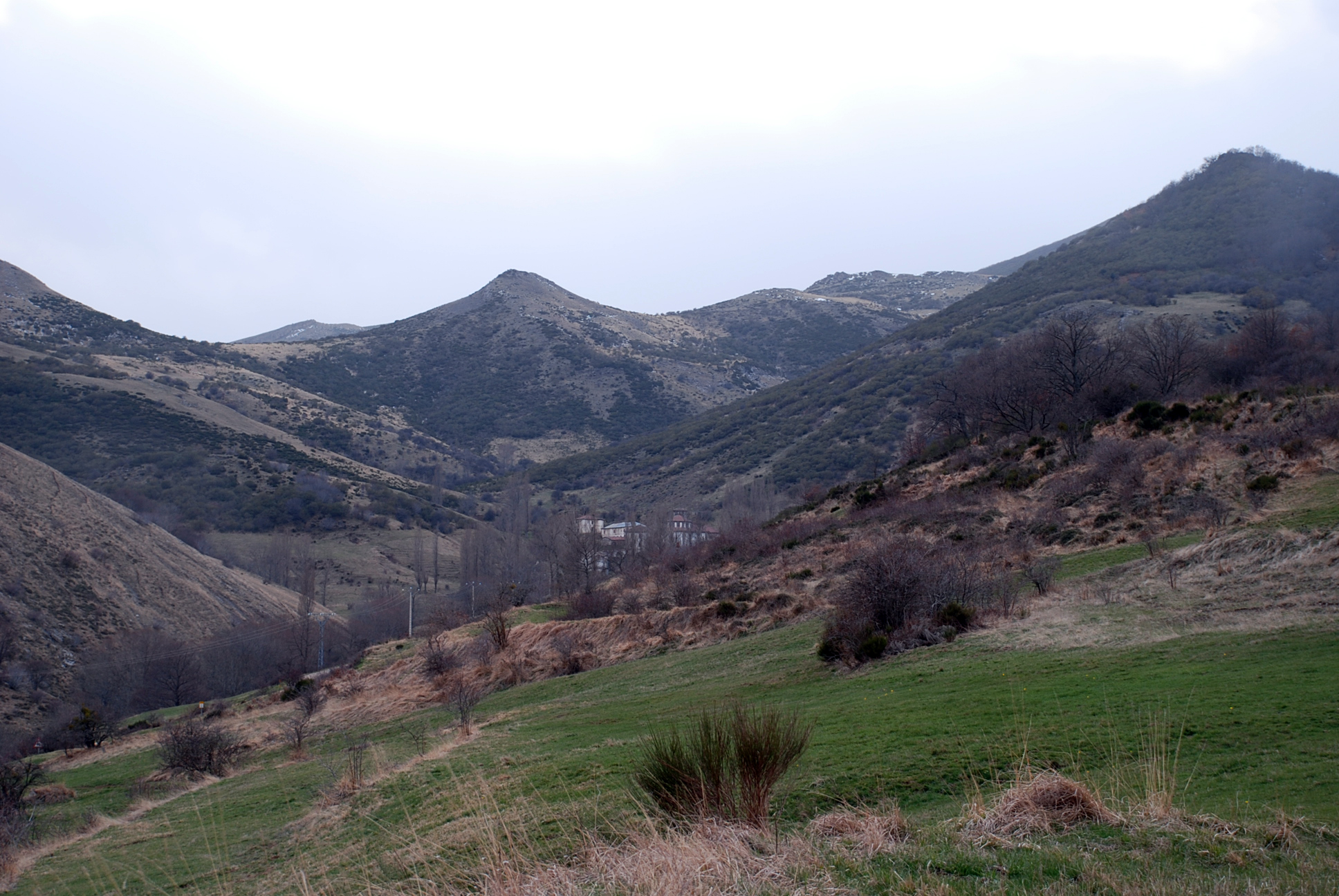 Lebanza Abbey (Palencia, Castile and León).